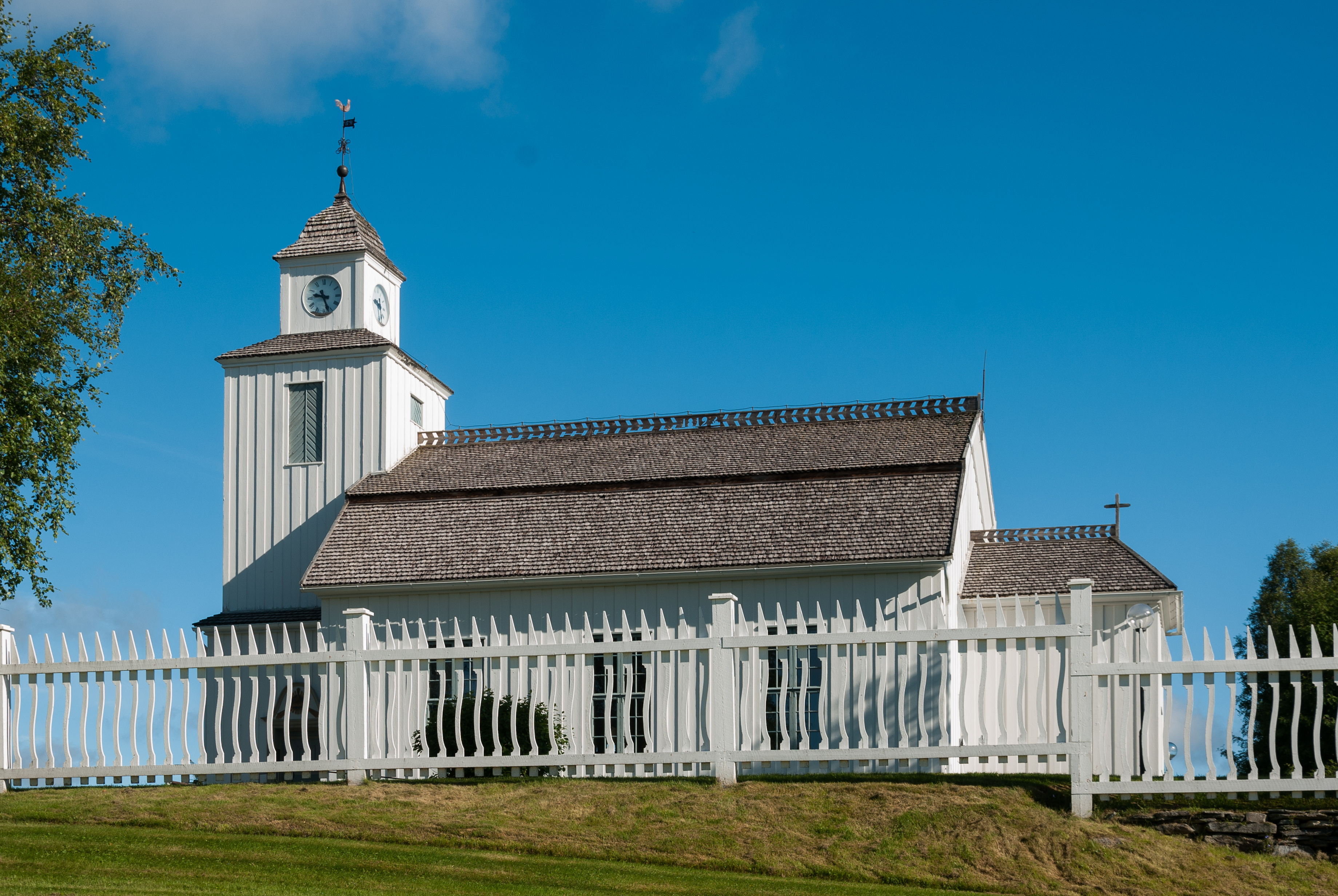 Storsjö kyrka (church).